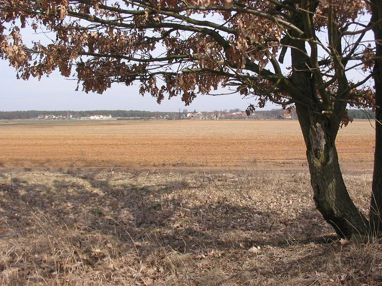 Belziger Landschaftswiesen („territory grassland near the town Belzig“) in Brandenburg, view from a small dune to Freienthal with the "Zauche" in the background